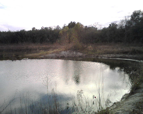 Photo I took during a bike ride in the northeastern part of the reservoir, east of the archery range.